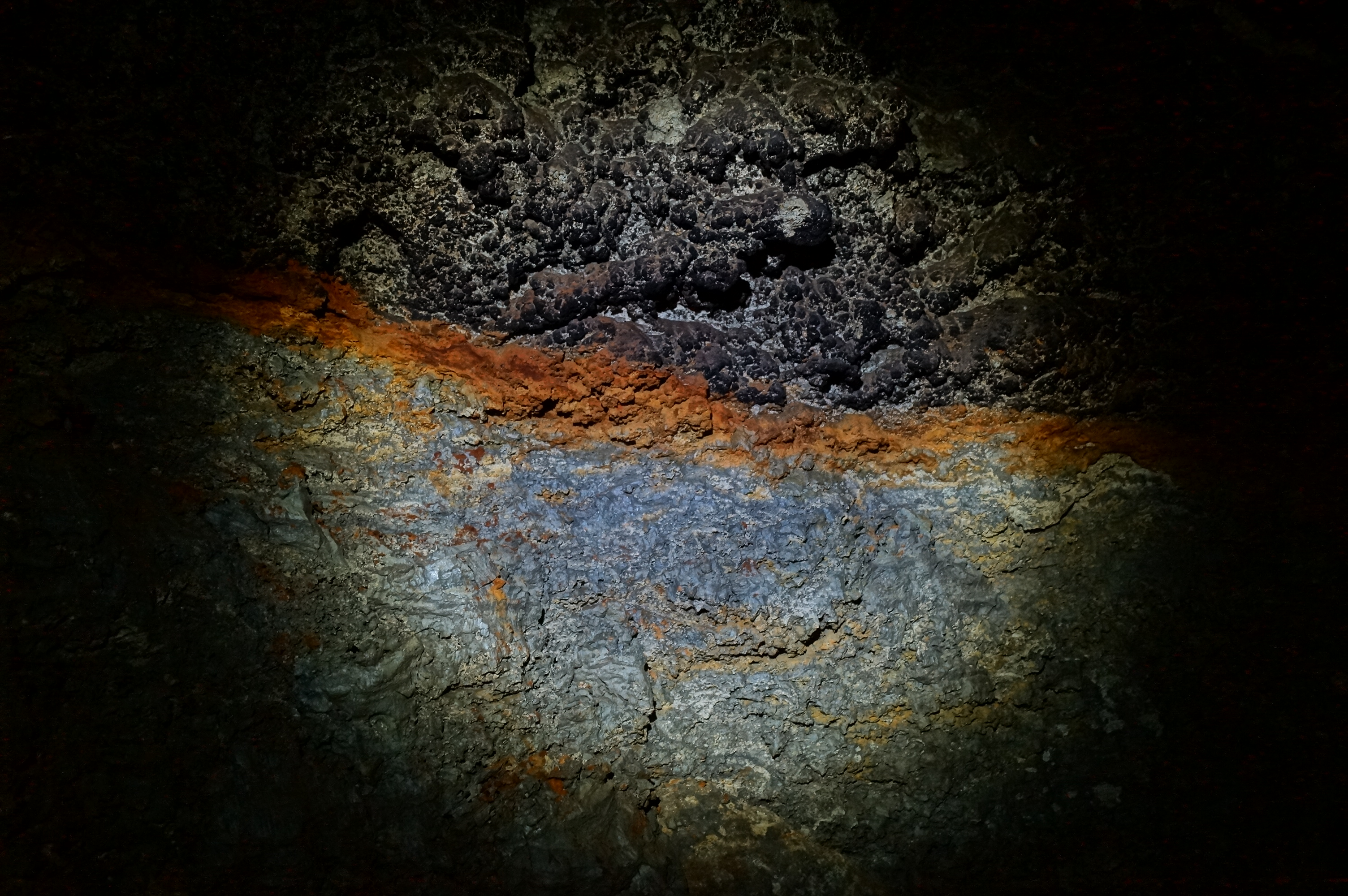 Iron-manganese films on the wall of Zolushca Cave (Emil Racovita), karst gypsum cave located in Moldova, v. Criva.